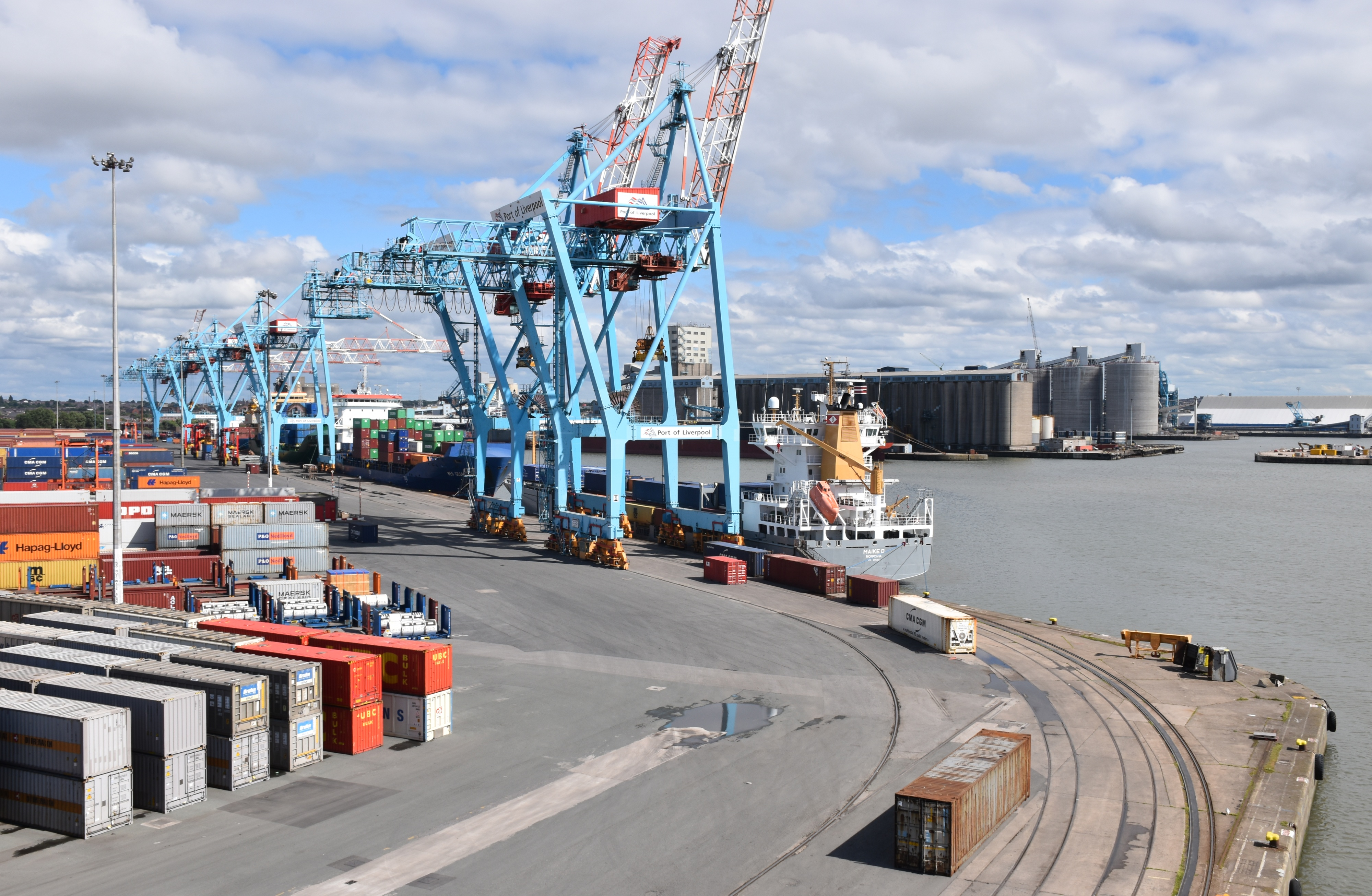 Royal Seaforth Containerterminal and Dock, July 2016.